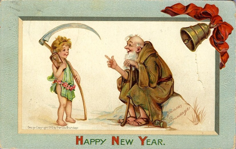 Postcard wishing "Happy New Year"; opposite side of card is shown, as web page states (words along lefthand edge of address side): "The back states: "NEW YEAR" SERIES-POSTCARD No. 300 Printed in Germany" Card is embossed, according to web page; store Web page also states: "The size of this postcard is 5 9/16 inches x 3 1/2 inches."